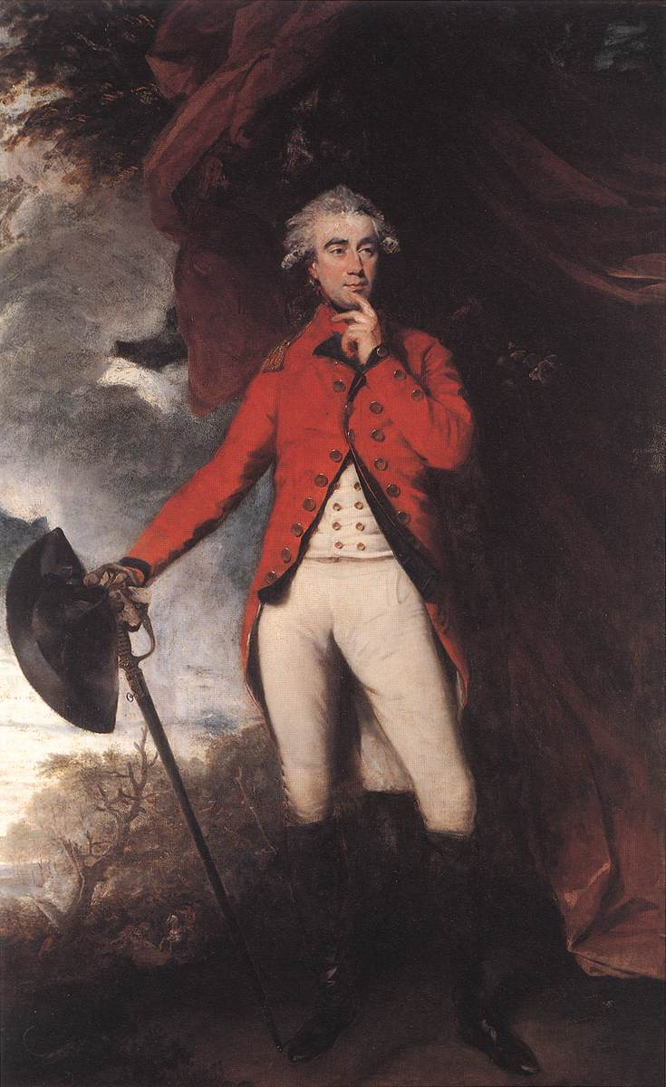 Work painted while Rawdon-Hastings was Governor-General of India. He held this post until 1823.